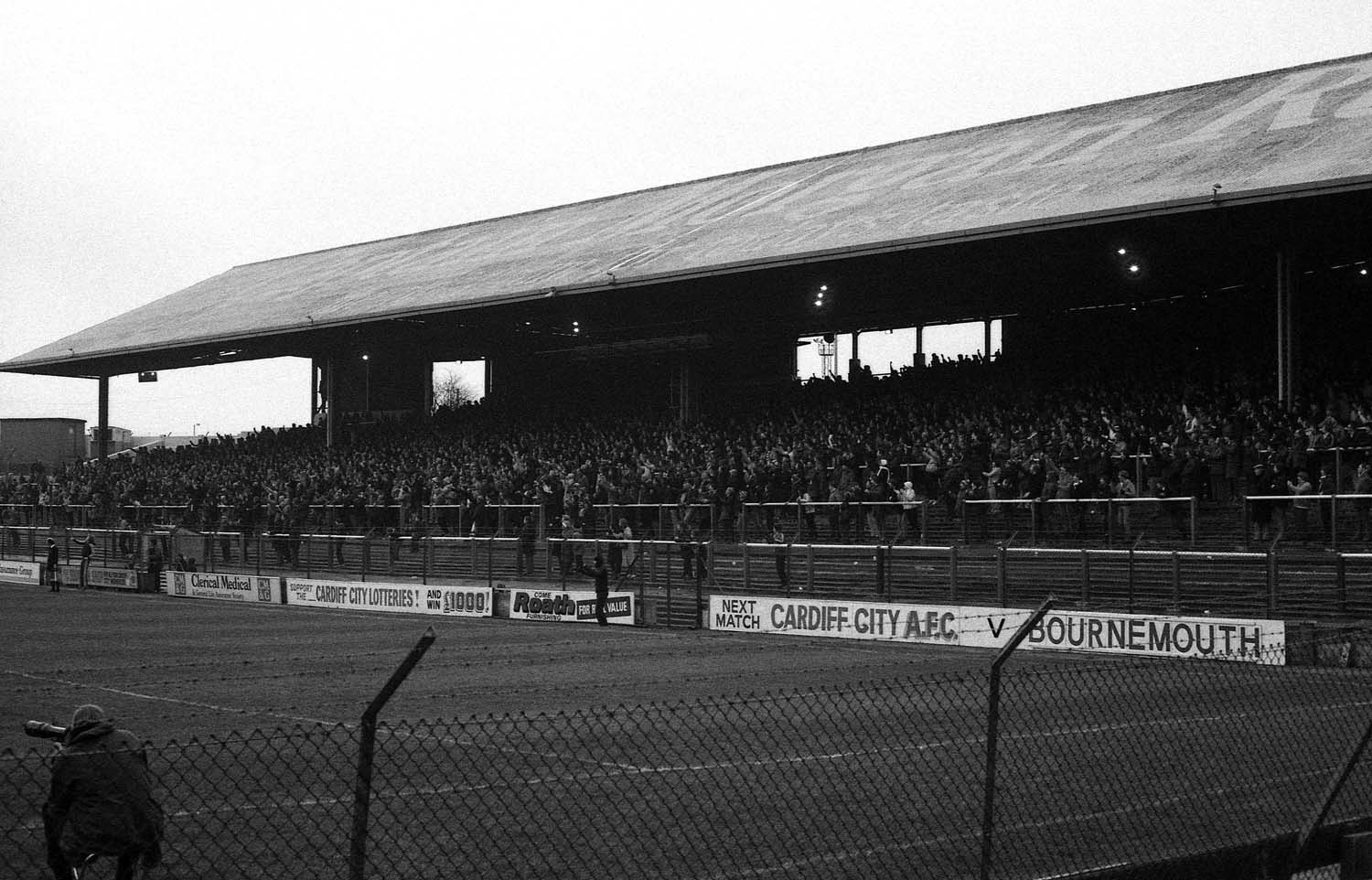 The popular bank terrace at Ninian Park, Cardiff, Wales